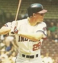 Image cropped from a baseball card of Cleveland Indians player Cory Snyder from the 1987 Action SuperStars Series 3 set.